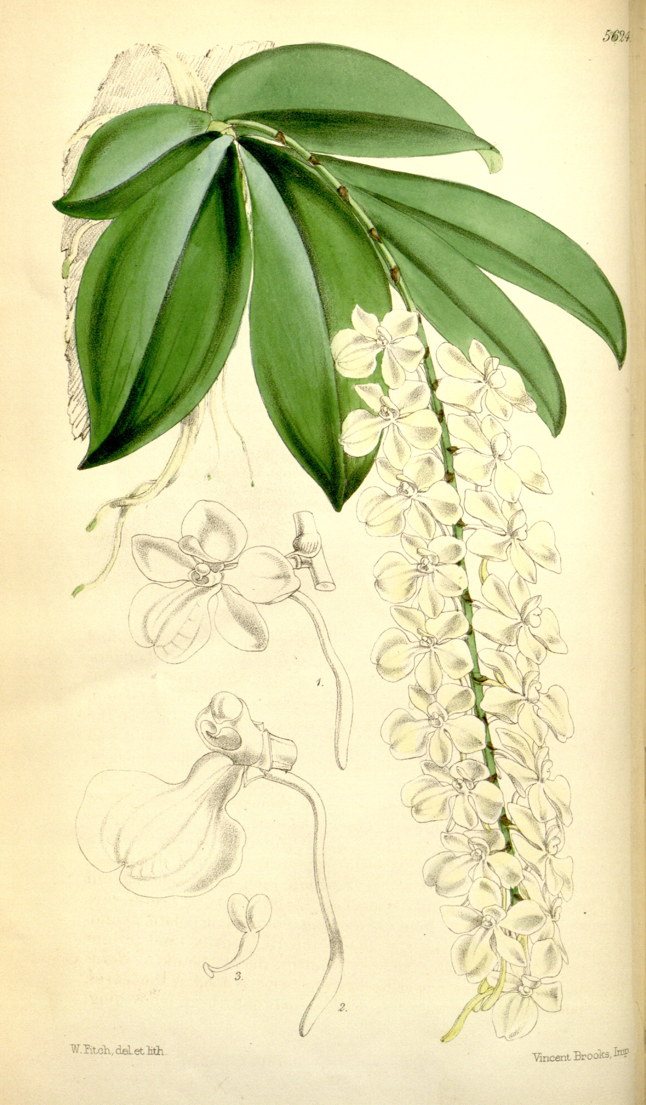 Illustration of Aerangis citrata (as syn. Angraecum citratum)